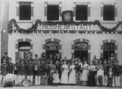 Opening of the terminal Rosheim Village and the branch line Rosheim – Ottrott – Saint Nabor (built by the railway constructing and operating company Vering & Waechter in 1902)